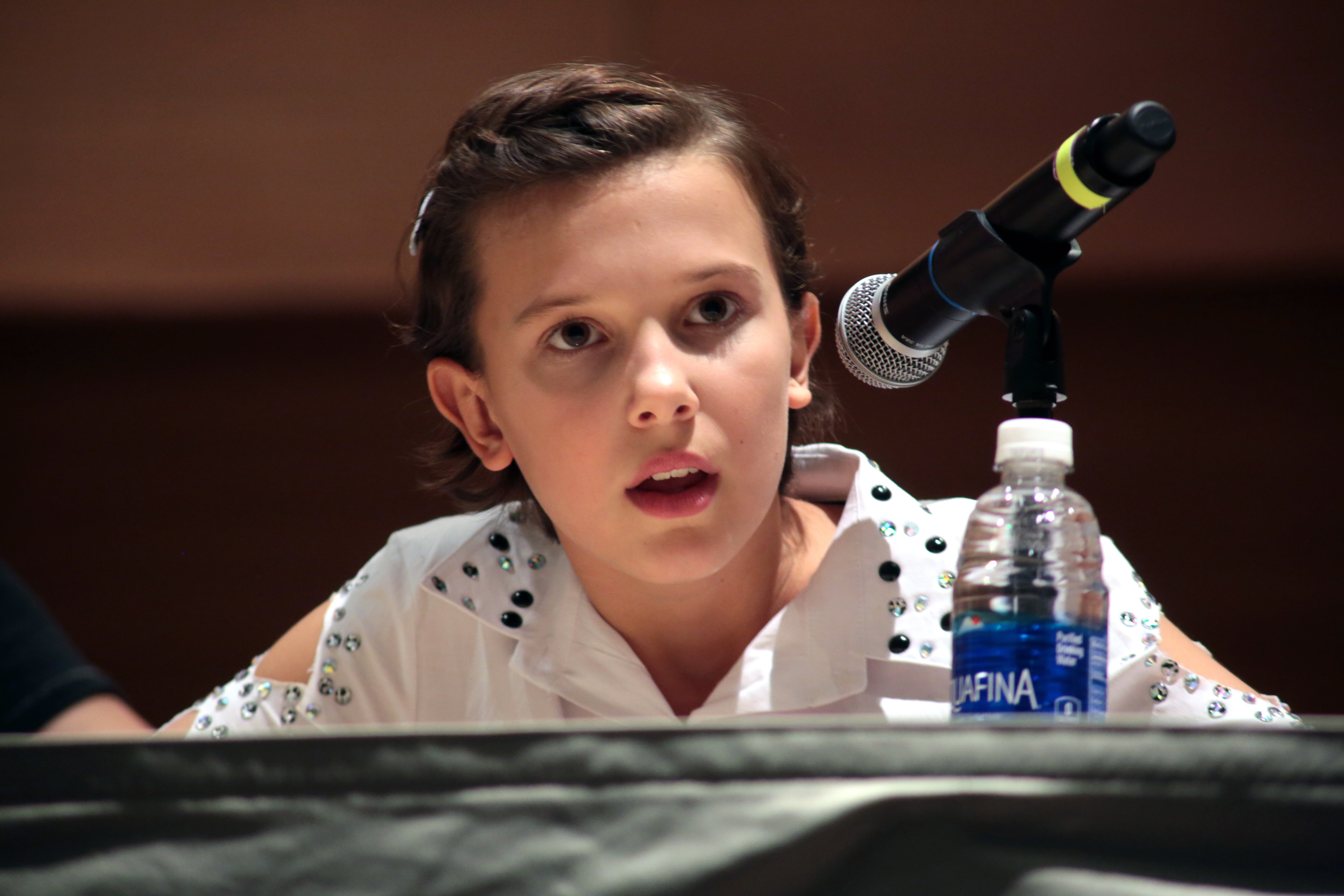 Millie Bobby Brown speaking at the 2016 Phoenix Comicon Fan Fest at the Phoenix Convention Center in Phoenix, Arizona.